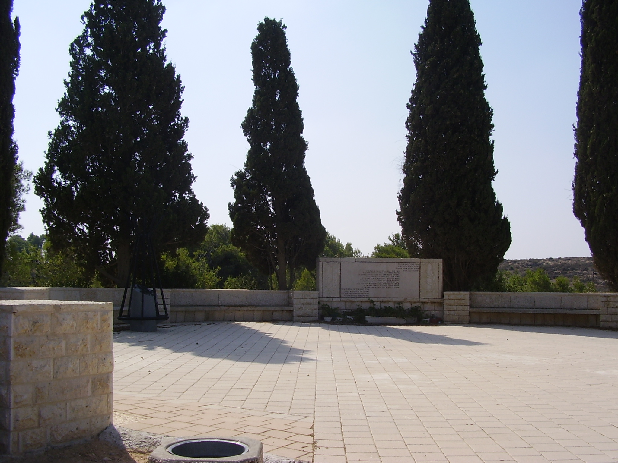 war memorial in kibbutz erez אתר הנצחה בקיבוץ ארז